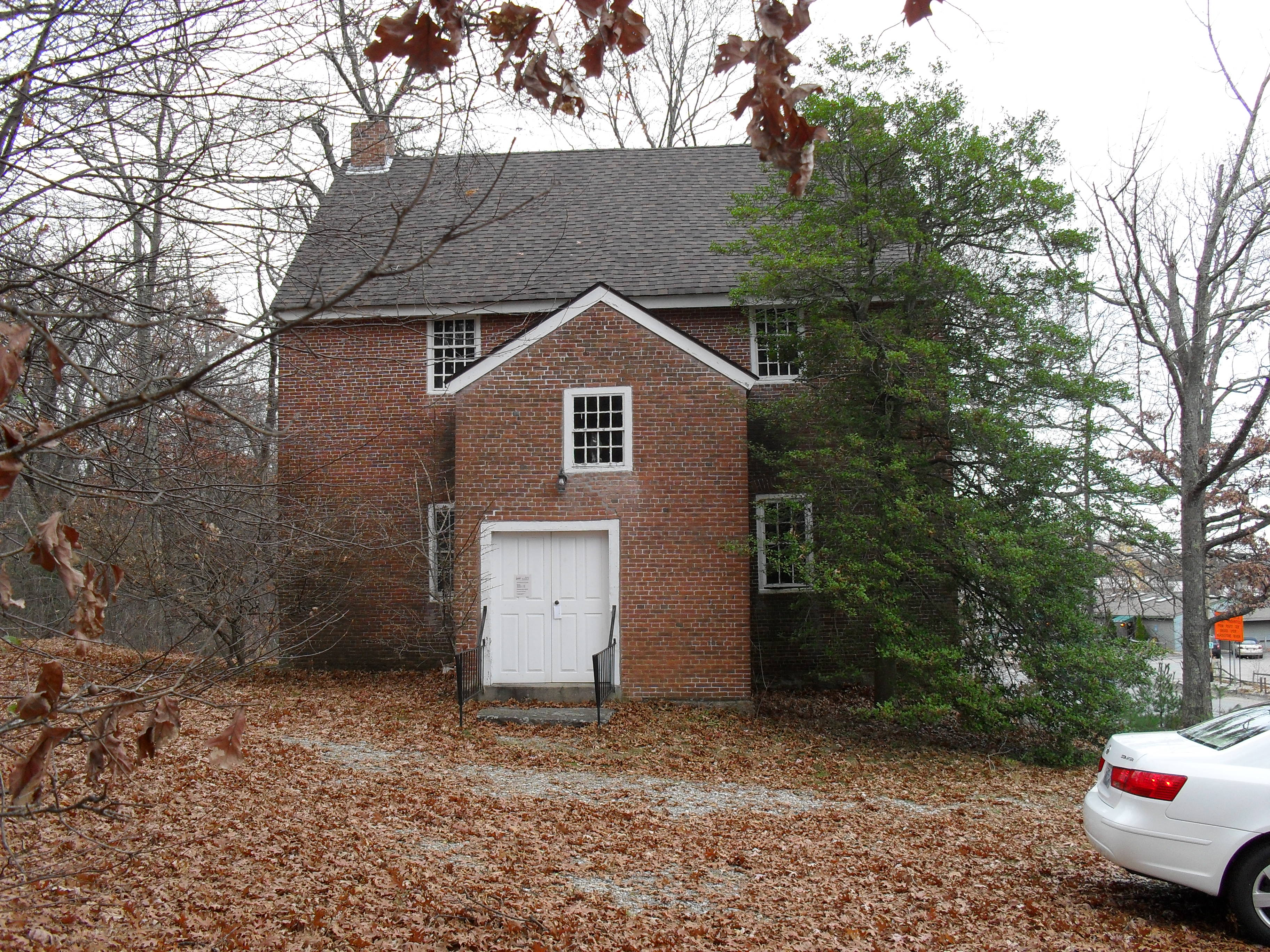 Freinds Meetinghouse(1770), Uxbridge, Massachusetts, November 11th, 2009